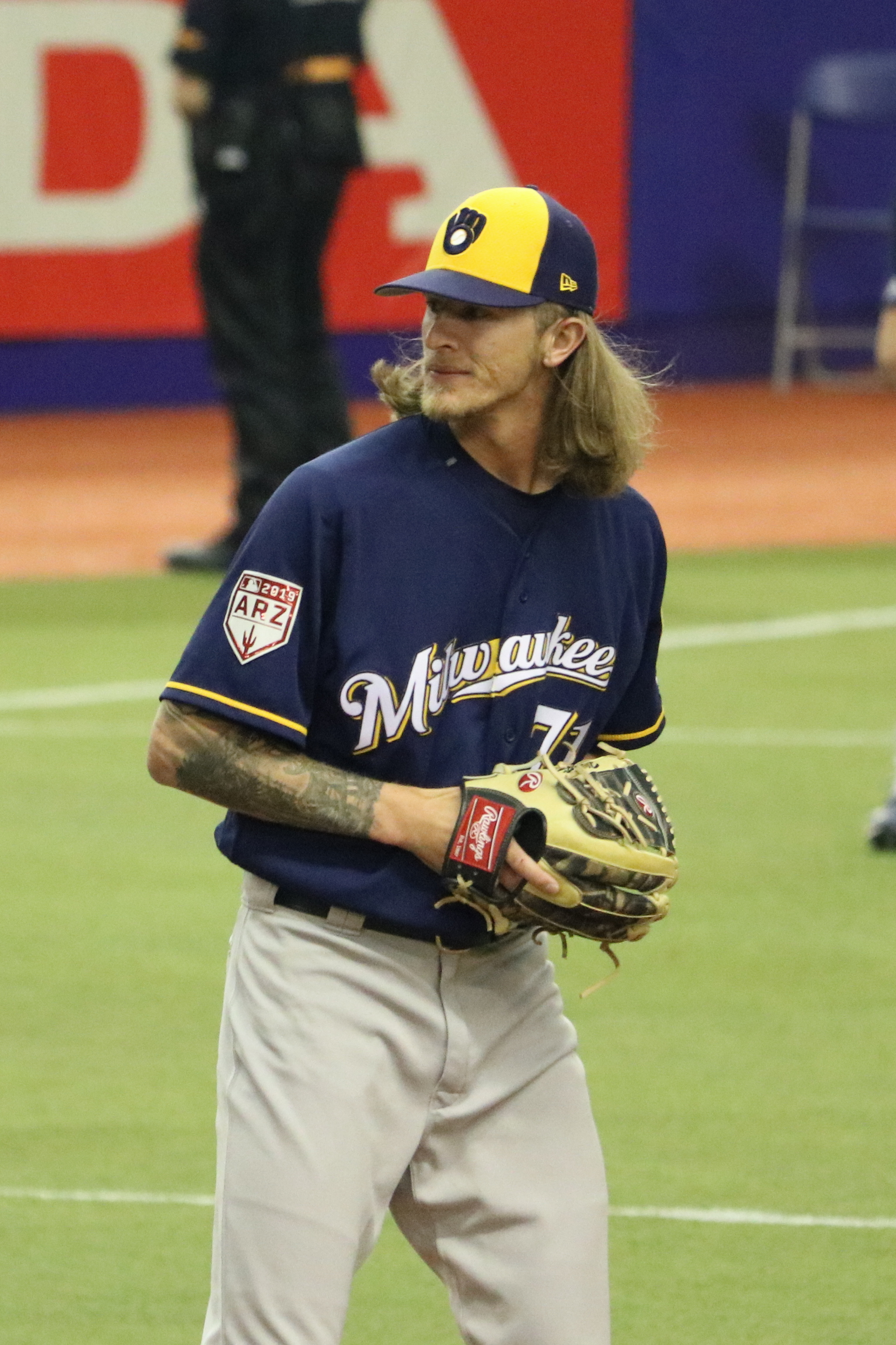 Josh Hader on March 25, 2019